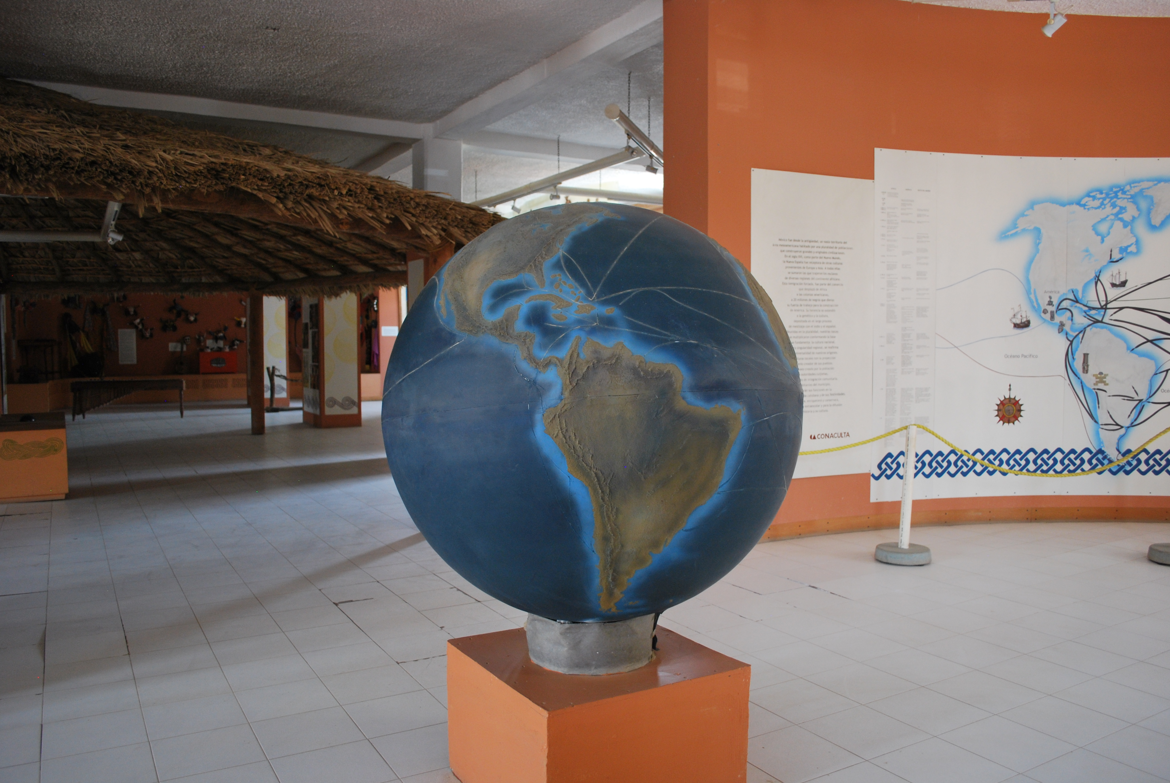 Globe at the Museo de las Culturas Afromestizas in Cuajinicuilapa, Guerreo